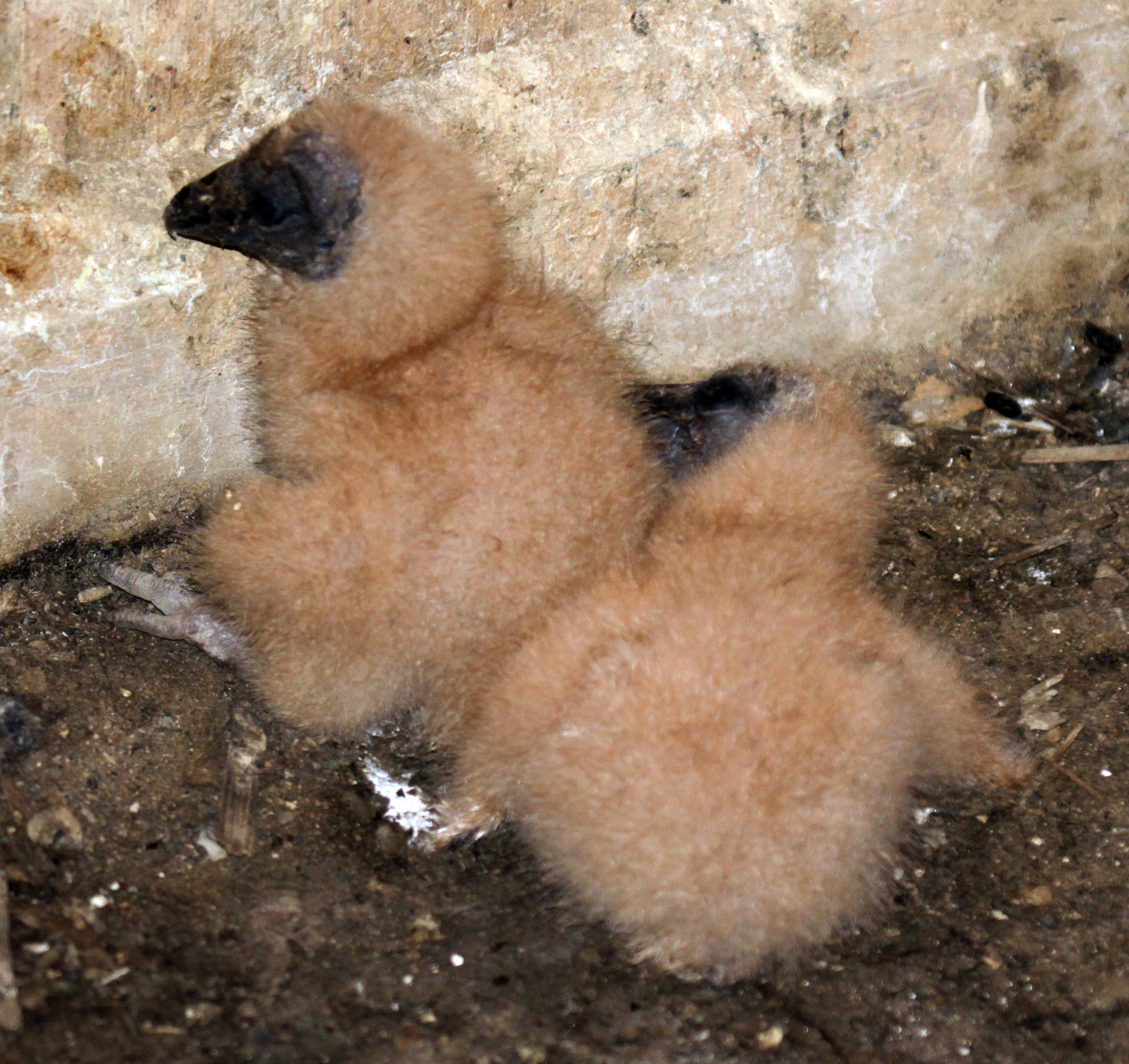 Coragyps atratus; Allen's Fresh, Charles Co., MD